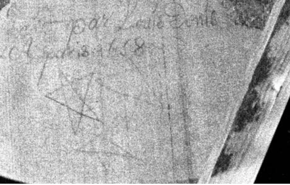 This is a photograph taken of the underside of the soundboard of the 1658 Louis Denis harpsichord, showing the three stars and signature in red chalk that members of the Denis family used to sign their soundboards.